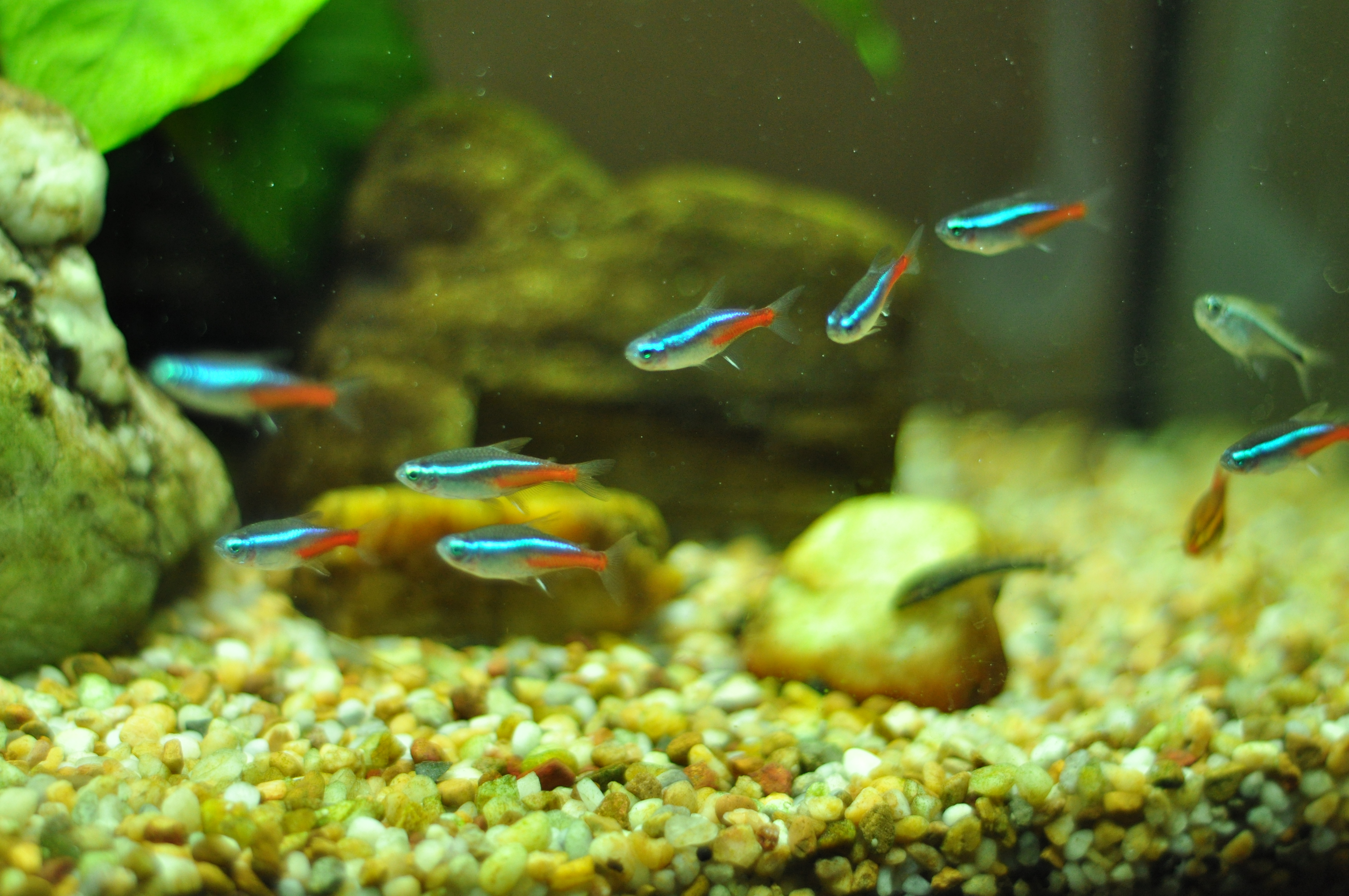 This picture features the Neon Tetra.